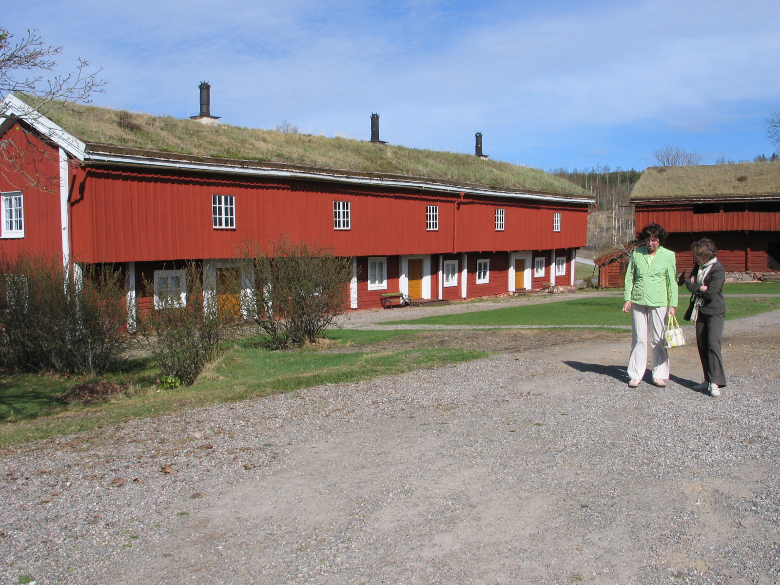 The manor Siggebohyttan, Lindesberg, Sweden